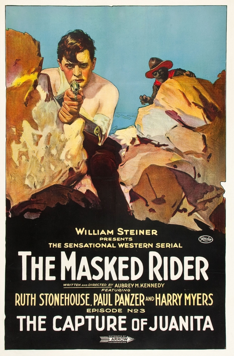 Poster for episode 3 of the American western film serial The Masked Rider (1919).